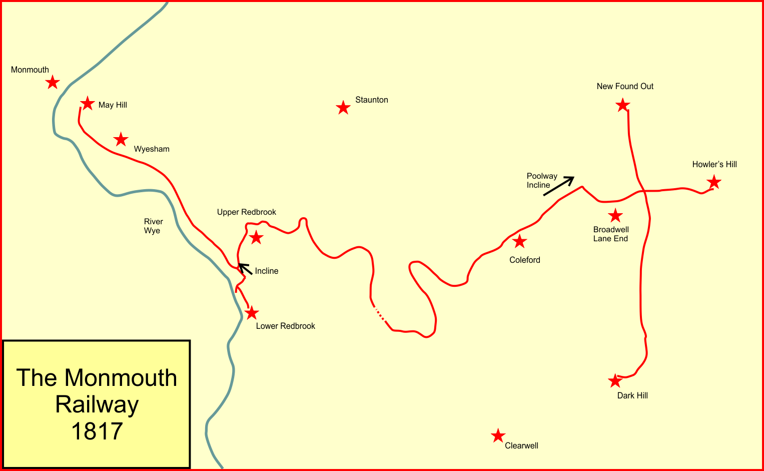 System map of the Monmouth Railway, Great Britain, in 1817